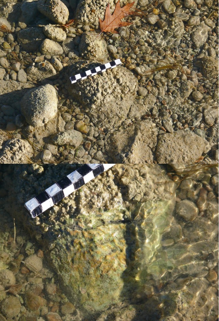 groove stone, Krustenstein, Furchenstein am Chiemsee Locality: Chiemsee, Bayern fluvio-glacial limestone on the waterfront of Chiemsee, surface covered with cauliflower-like lime-crust brush aside the crust, there is seen an coating by algae and the start of structuring the surface of limestone is visible - grooves